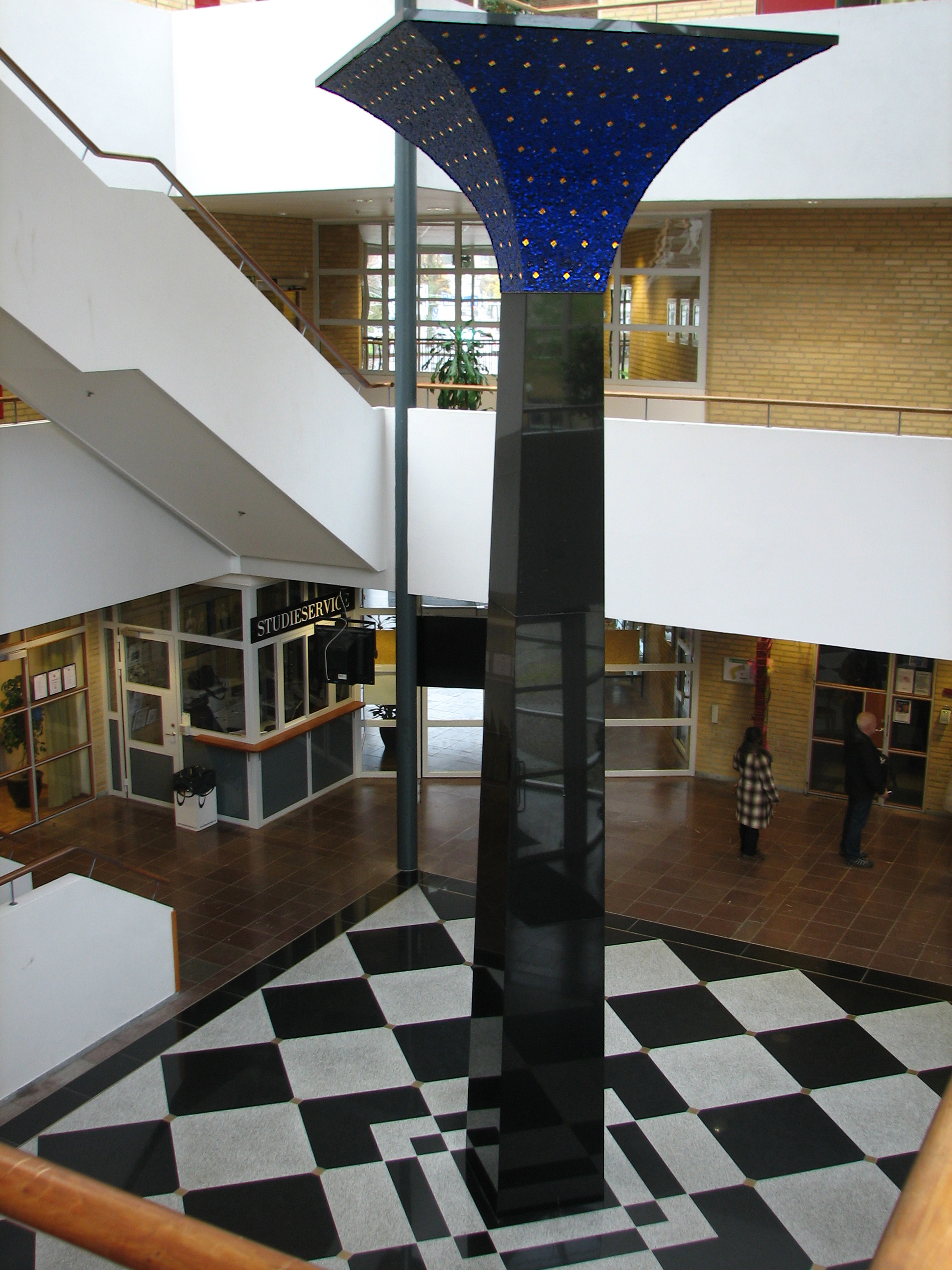 The smaller of two sculptures together called "Mut" (the name of an egyptian goddess) by Roland Anderson, placed outside Burgårdens utbildningscentrum in Göteborg, Sweden.